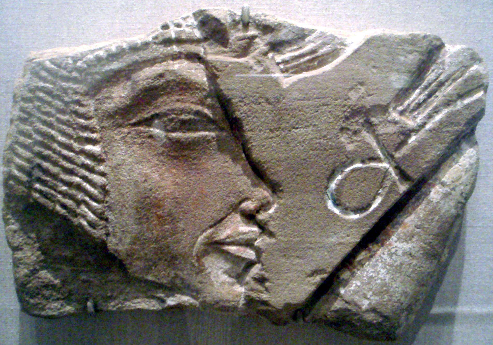 An early Amarna-era relief depicting Queen Nefertiti.